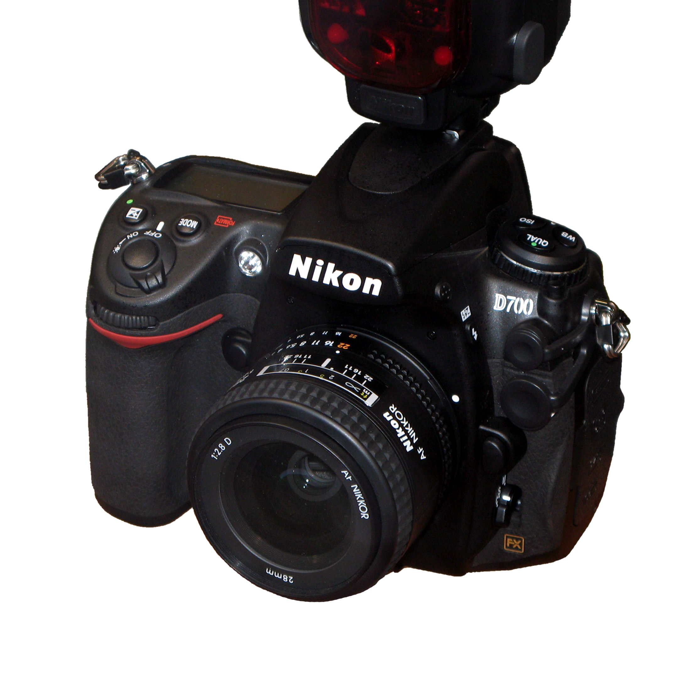 Nikon D700 digital SLR camera with AF Nikkor 28 mm f/2.8 lens